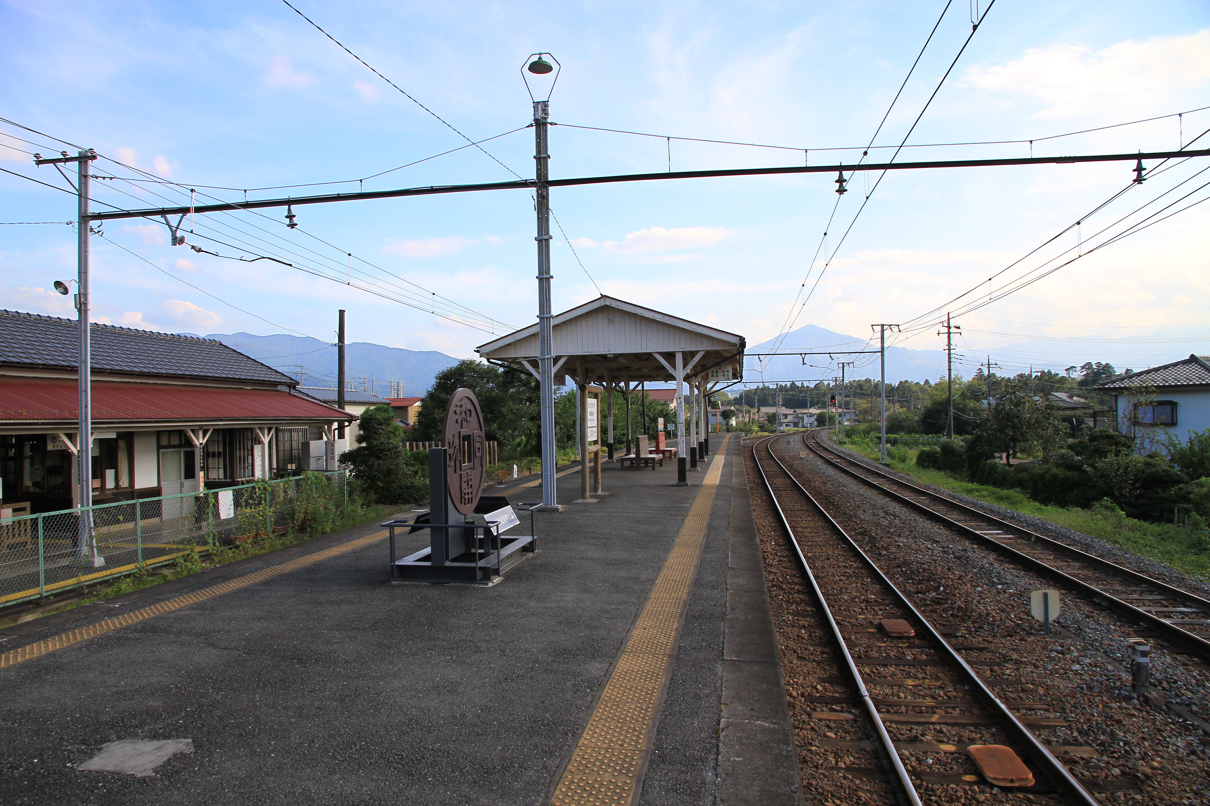 The platforms at Wado-Kuroya Station on the Chichibu Main Line in Saitama Prefecture